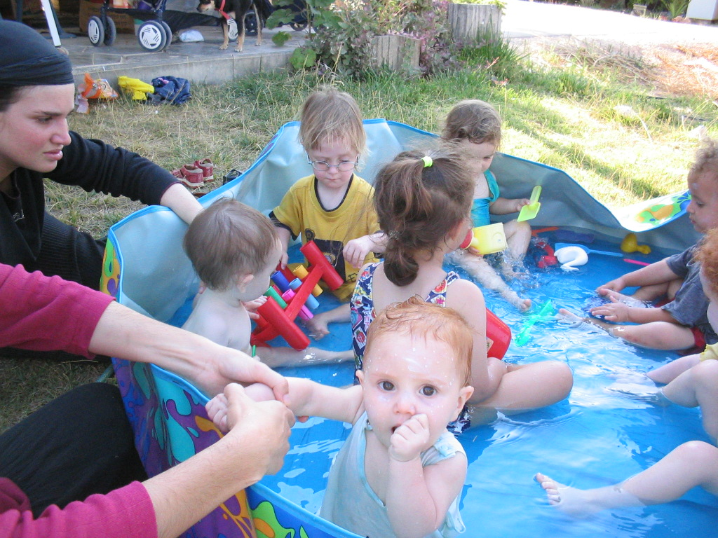 The children of Mevo'ot Yericho playing!